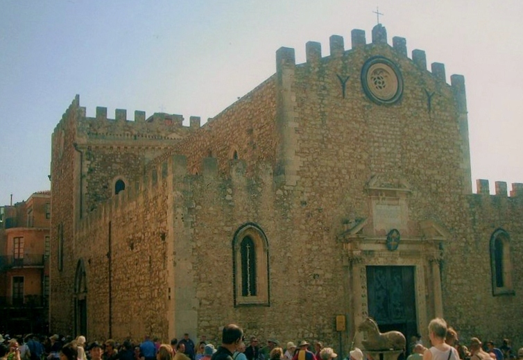 13th century cathedral, Piazza Duomo, Taormina, Sicily